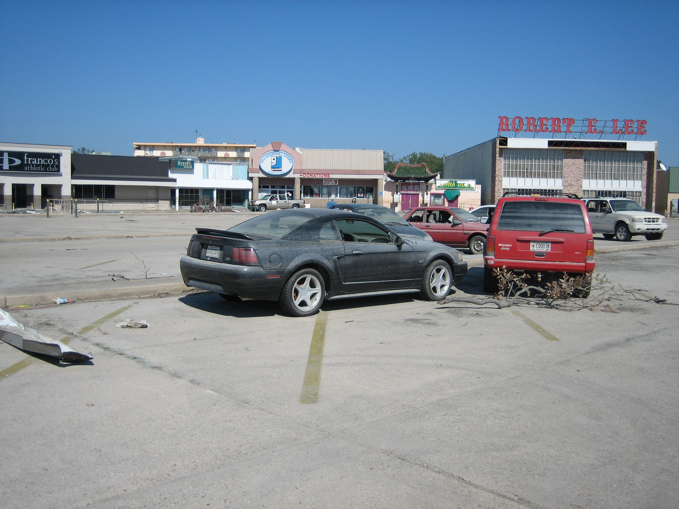 New Orleans after Hurricane Katrina: Flooded buildings and tossed cars at Robert E Lee mall lot